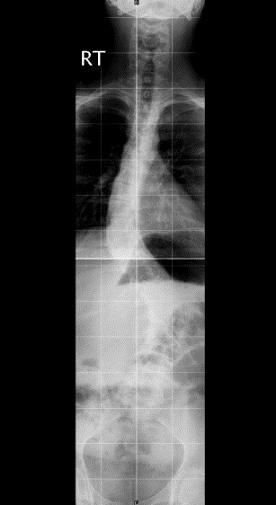 my s-shaped Scoliosis for male patient (18 yo). Thoracic: 41 degree and Lumbar: 48 degree.